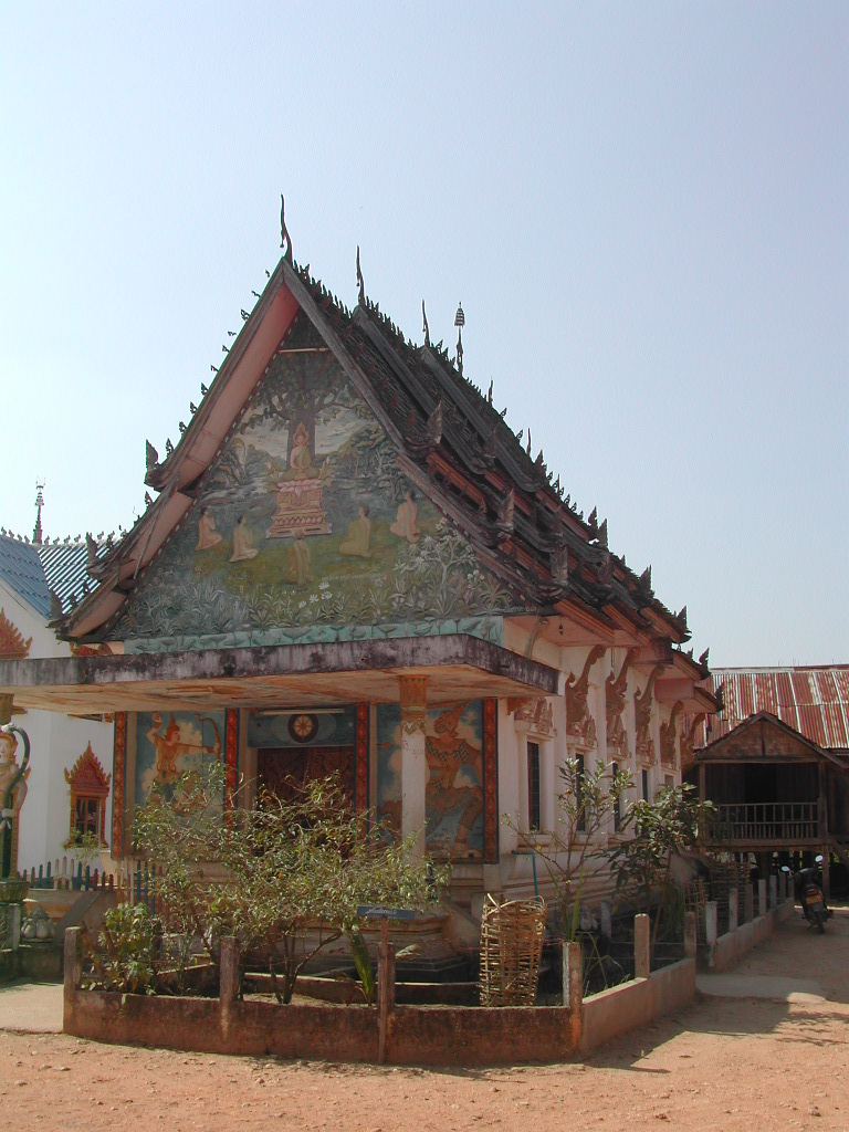 Wat Pho Xai monastery in Sam Neua